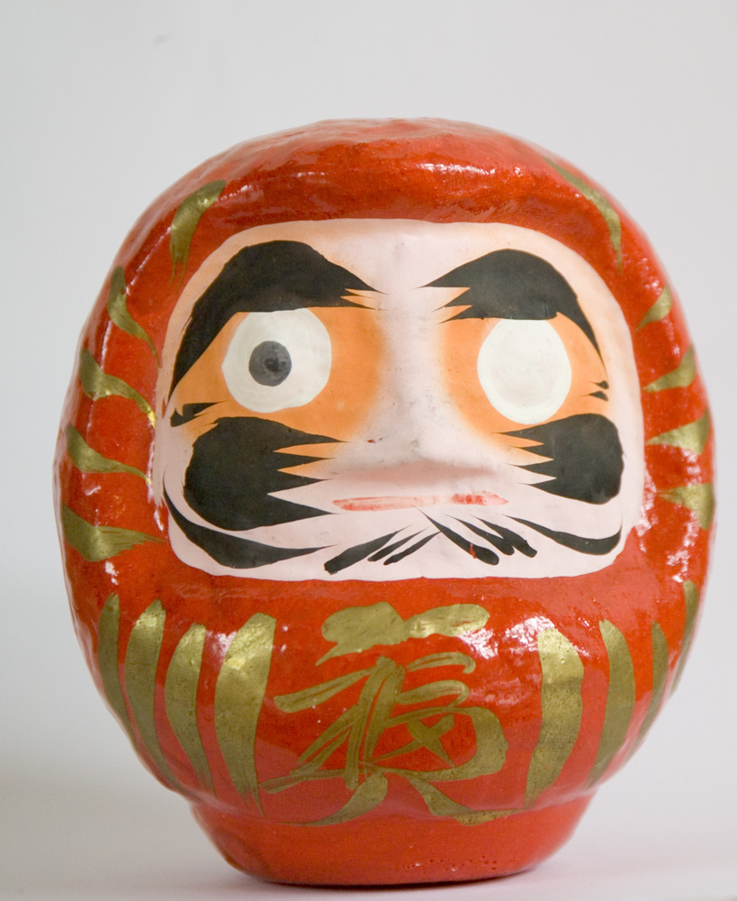 Daruma doll; hollow, round Japanese doll. I took this photograph on January 23, 2005 and contribute it to the public domain.